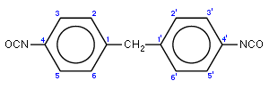 Chemical structure of methylene diphenyl 4,4'-diisocyanate (MDI), commonly used in polyurethane industry